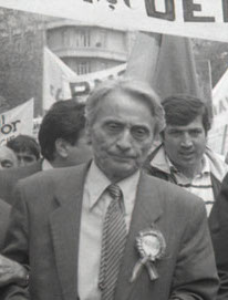 Ion Diaconescu at a public demonstration after the fall of communism in Romania